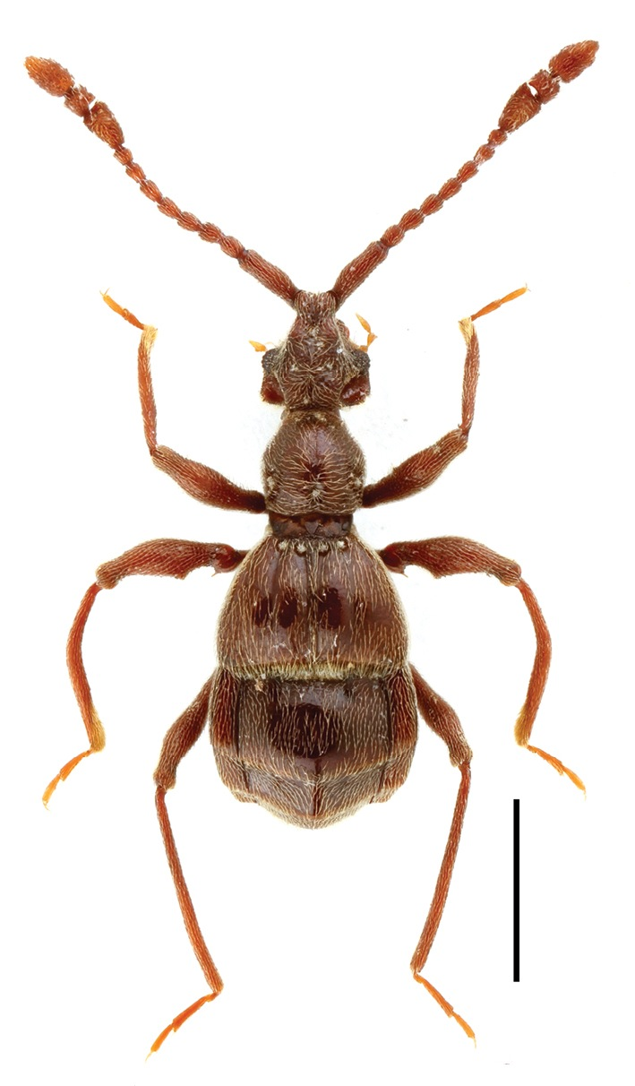 Male habitus of Labomimus dabashanus. Scale: 1.0 mm.